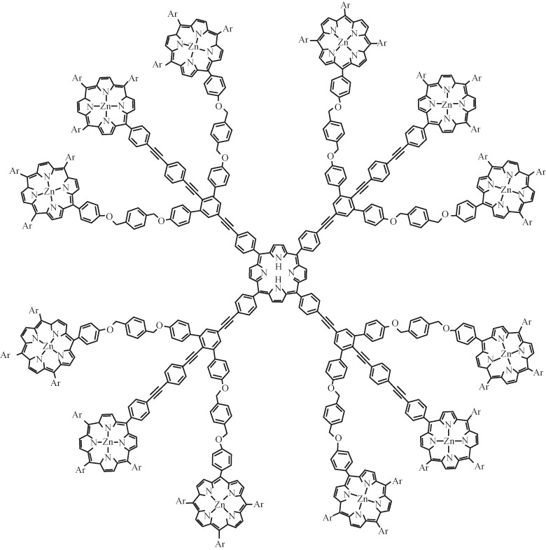 Fotoantenna dendrimer in which the light-induced electron energy is transferred from the peripheral porphyrin center.